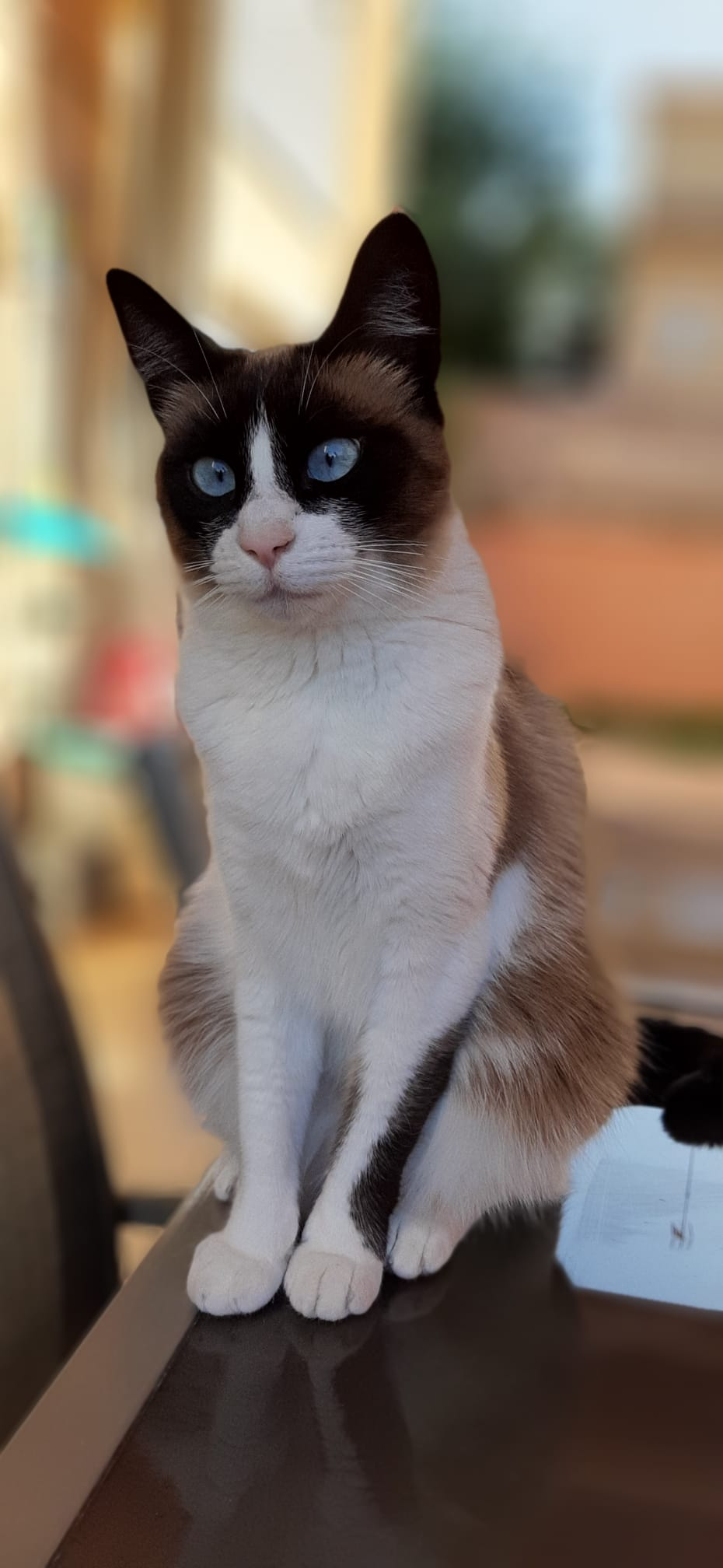 Snowshoe female cat.